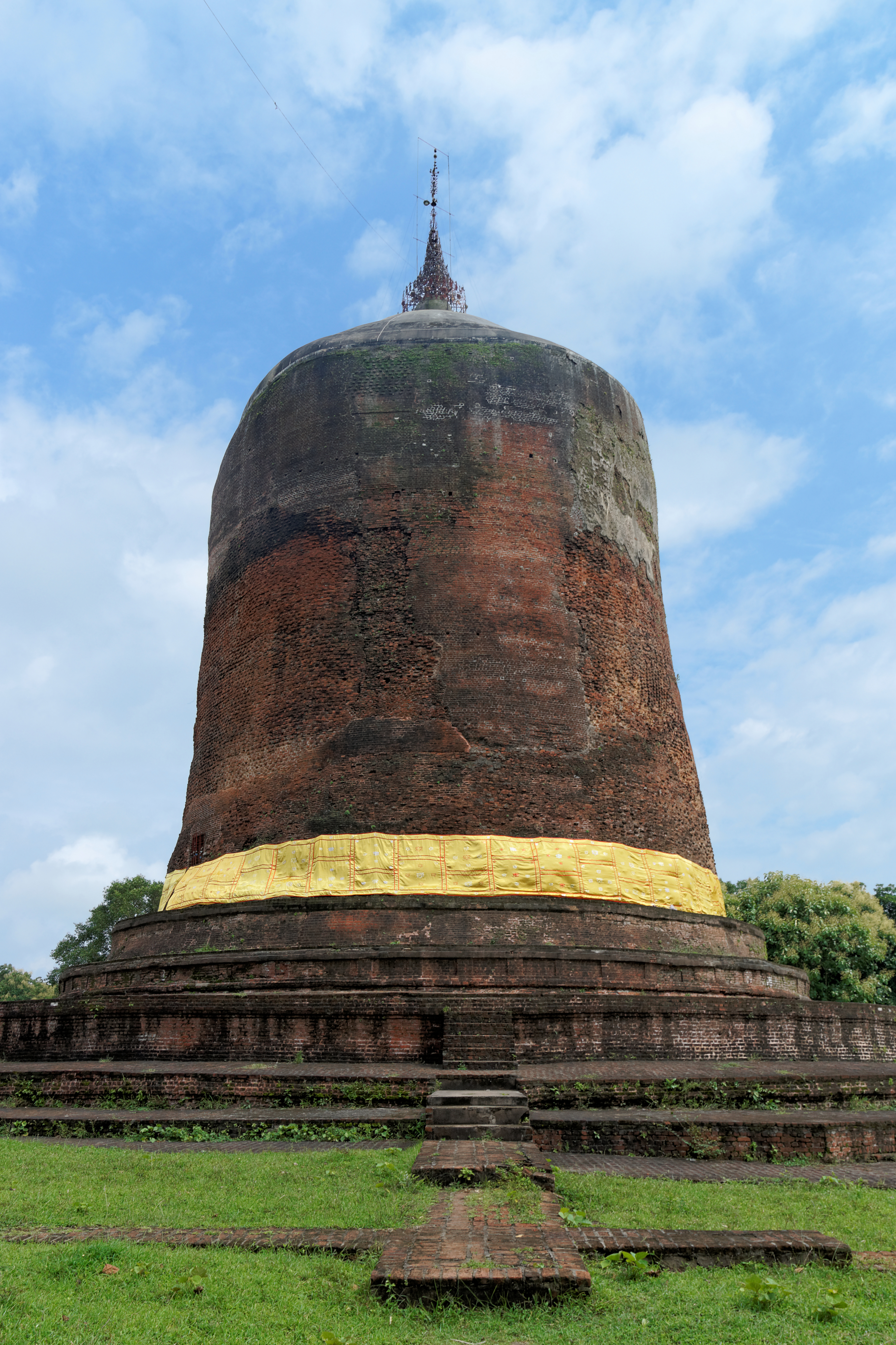 Bawbawgyi Pogoda at Sri Ksetra archaeological site near Pyay in Myanmar